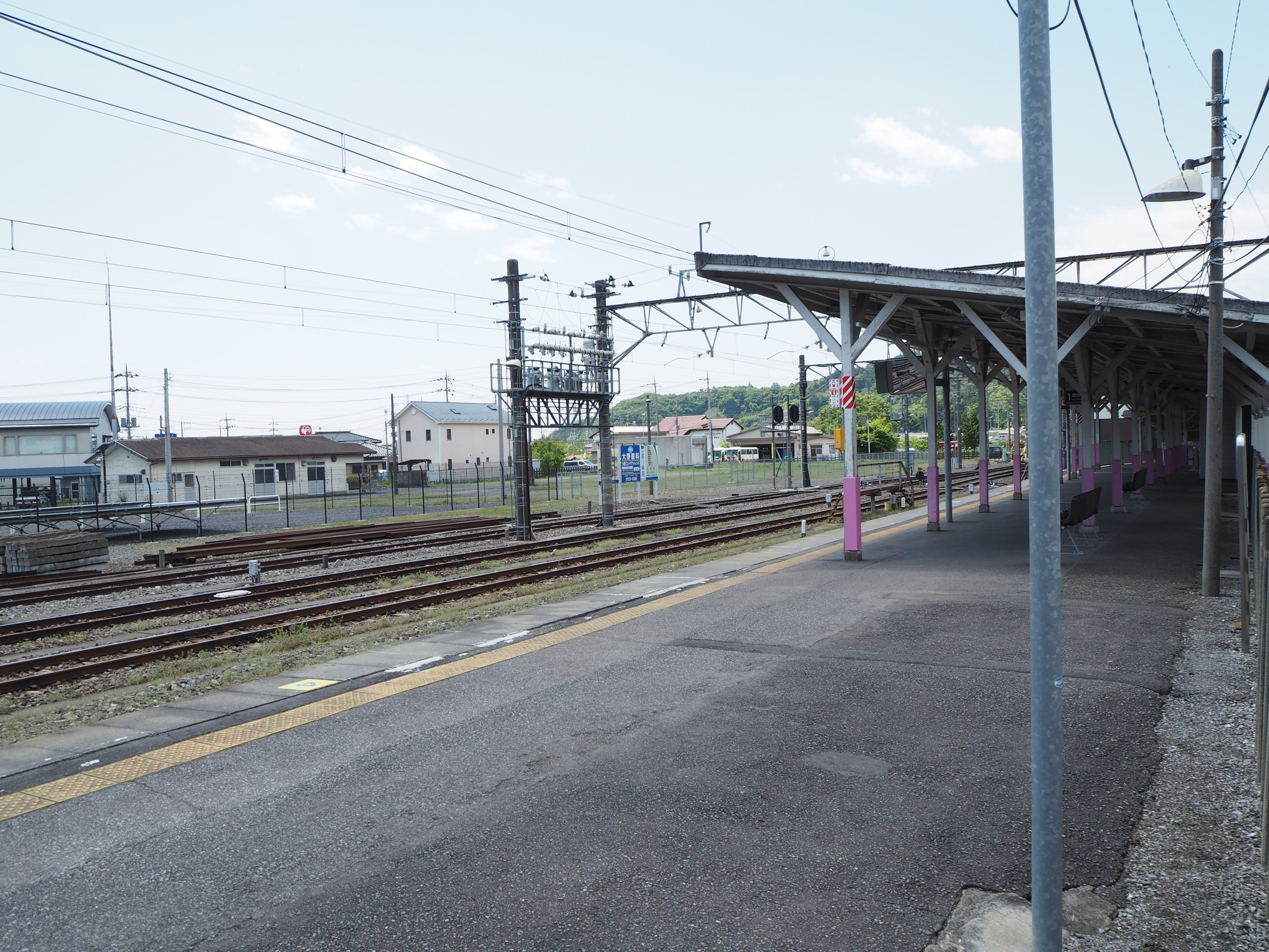 Platform of Kuzuu Station